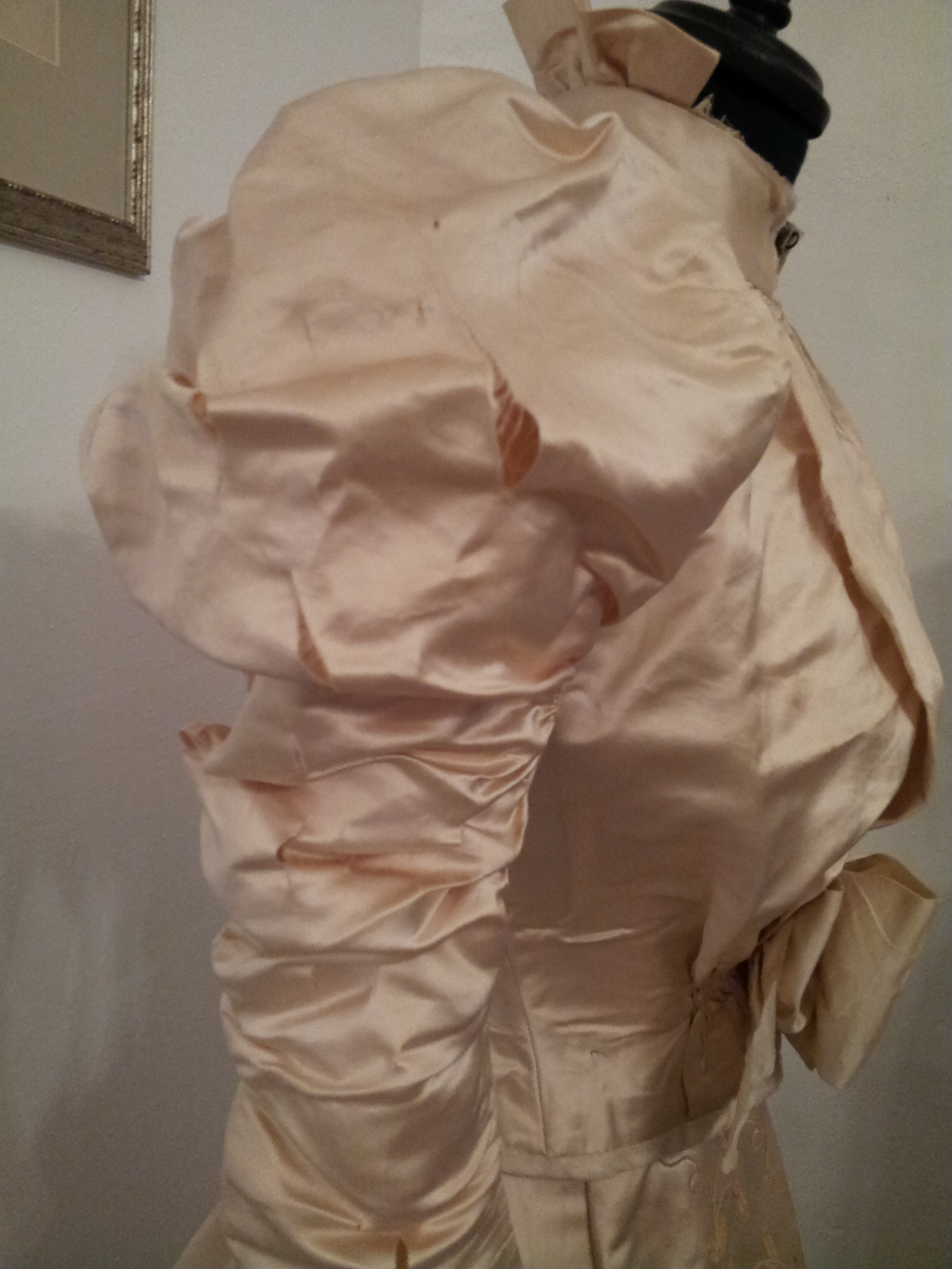 1890s wedding dress made from weighted silk which is splitting due to the nature of the fabric. Also called "shattered silk"